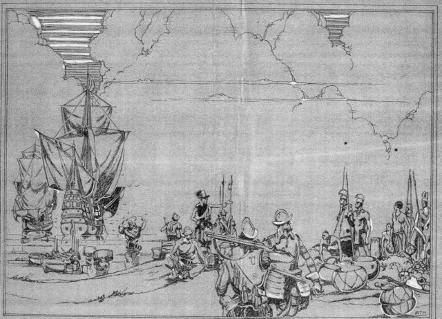 Spaniards Landing at Hawaii, ink drawing by Arman Manookian, Honolulu Academy of Arts